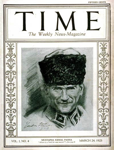 The first president of the Republic of Turkey Mustafa Kemal Atatürk on the cover of the Time Magazine, Vol. I No. 4, March 24, 1923. Title: "Mustapha Kemal Pasha".